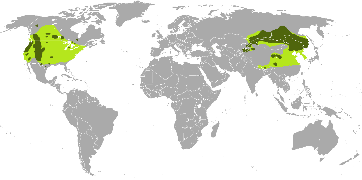 Reconstructed (light green) and recent (dark green) range of the wapiti (Cervus canadensis).